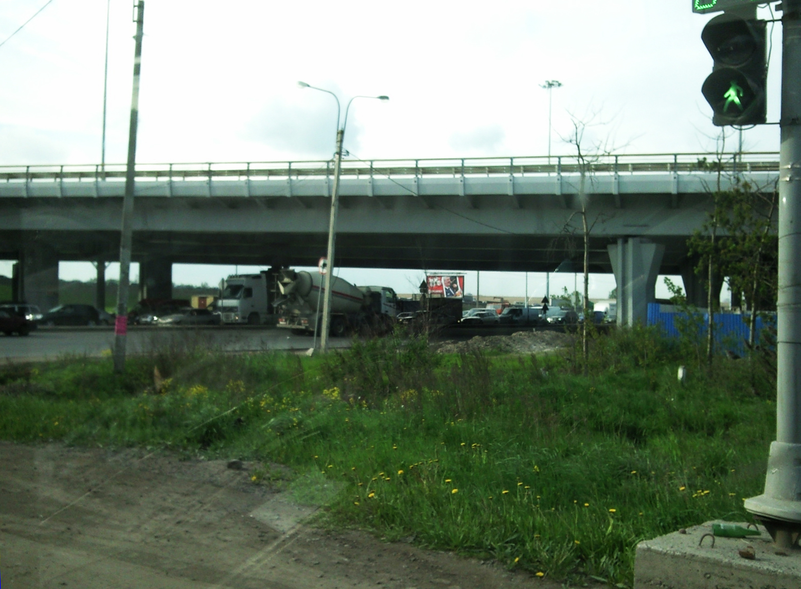 Volkhonskoye Shosse in Saint Petersburg, Russia